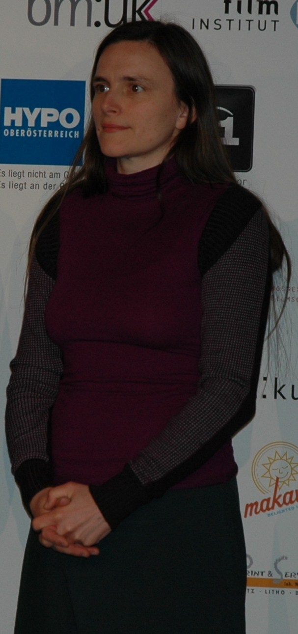 Austrian filmmaker Barbara Albert at the opening of the Crossing Europe Filmfestival in Linz, Austria, 2010